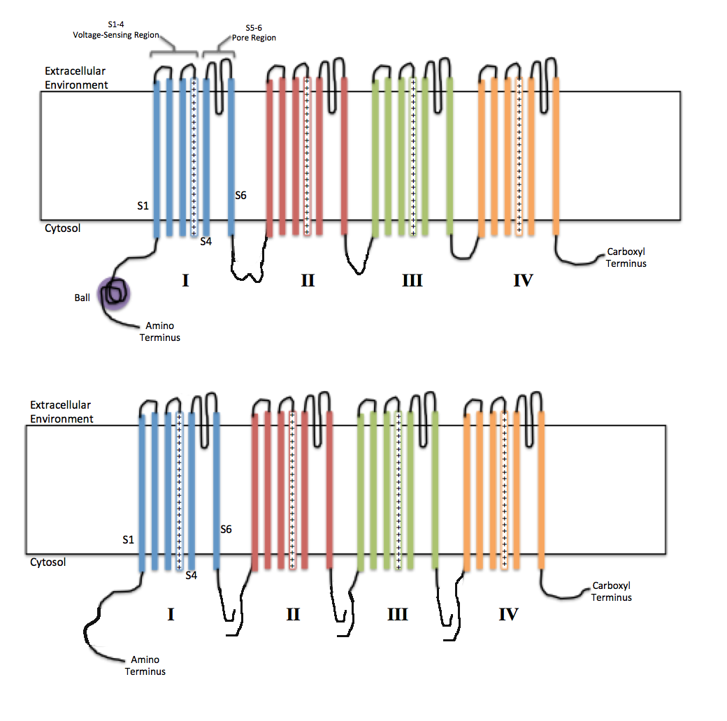 subunits of ion channels in membrane